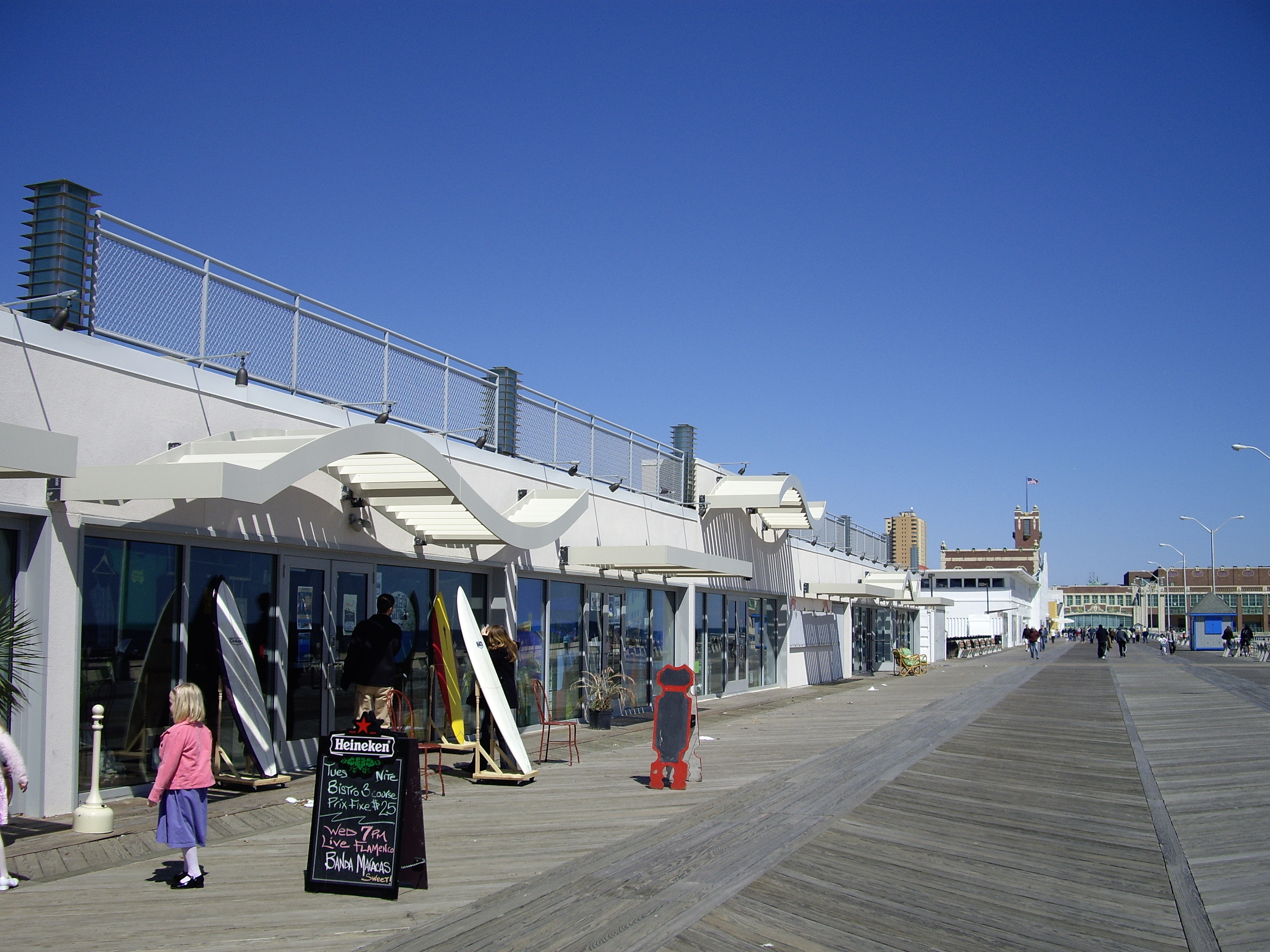 Redeveloped shops along the Asbury Park Boardwalk